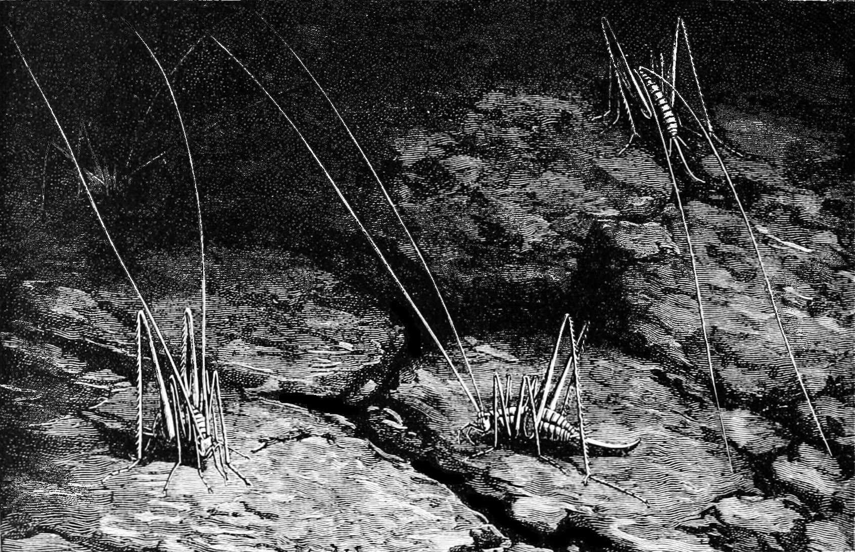 Blind insect of caves - Dolichopoda palpata